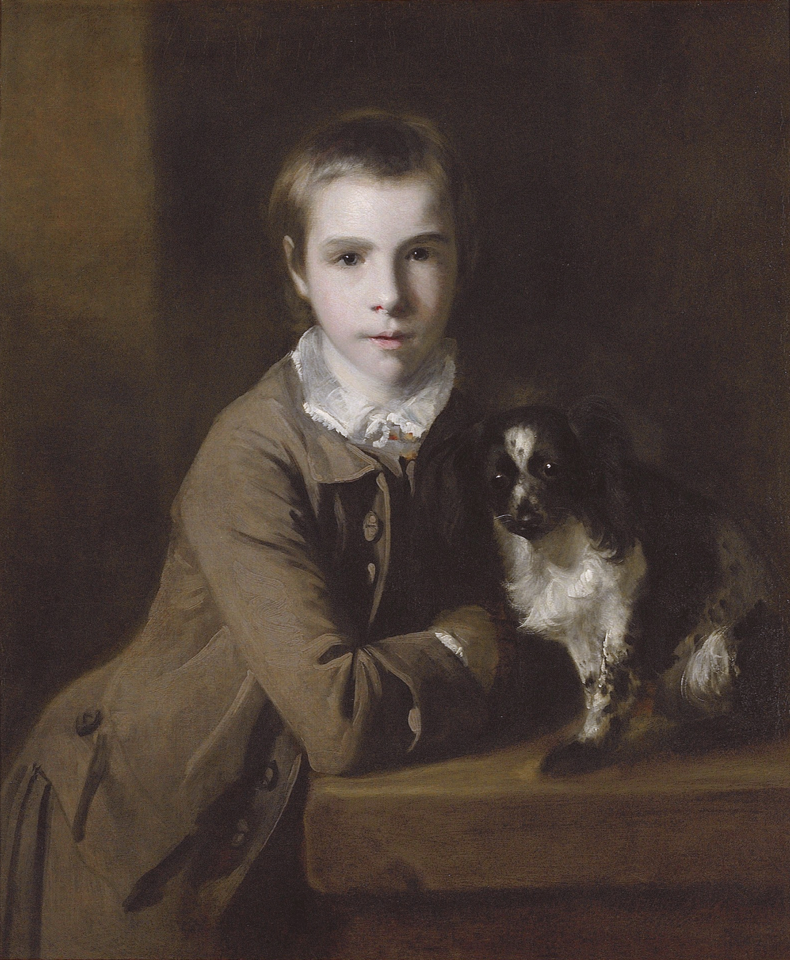 William Charles Colyear, Viscount Milsington, later 3rd Earl of Portmore (1747-1823), when a boy, half-length, in a grey coat, leaning on a table, with a spaniel